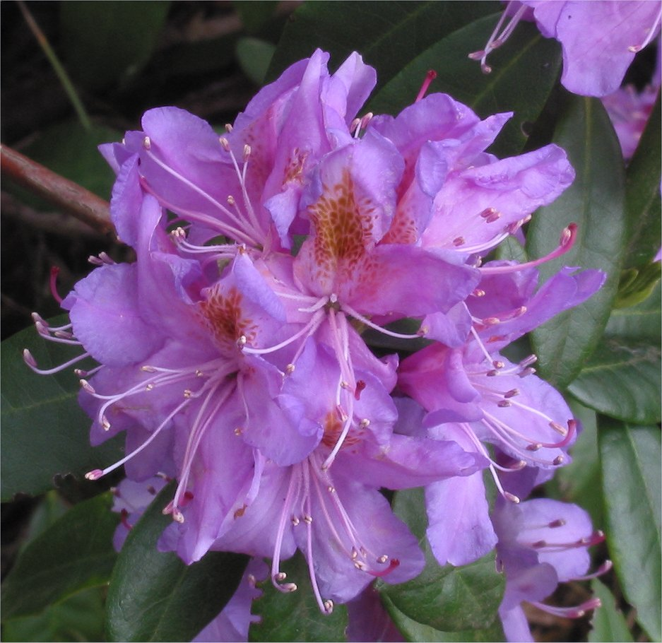 Rhododendron ponticum